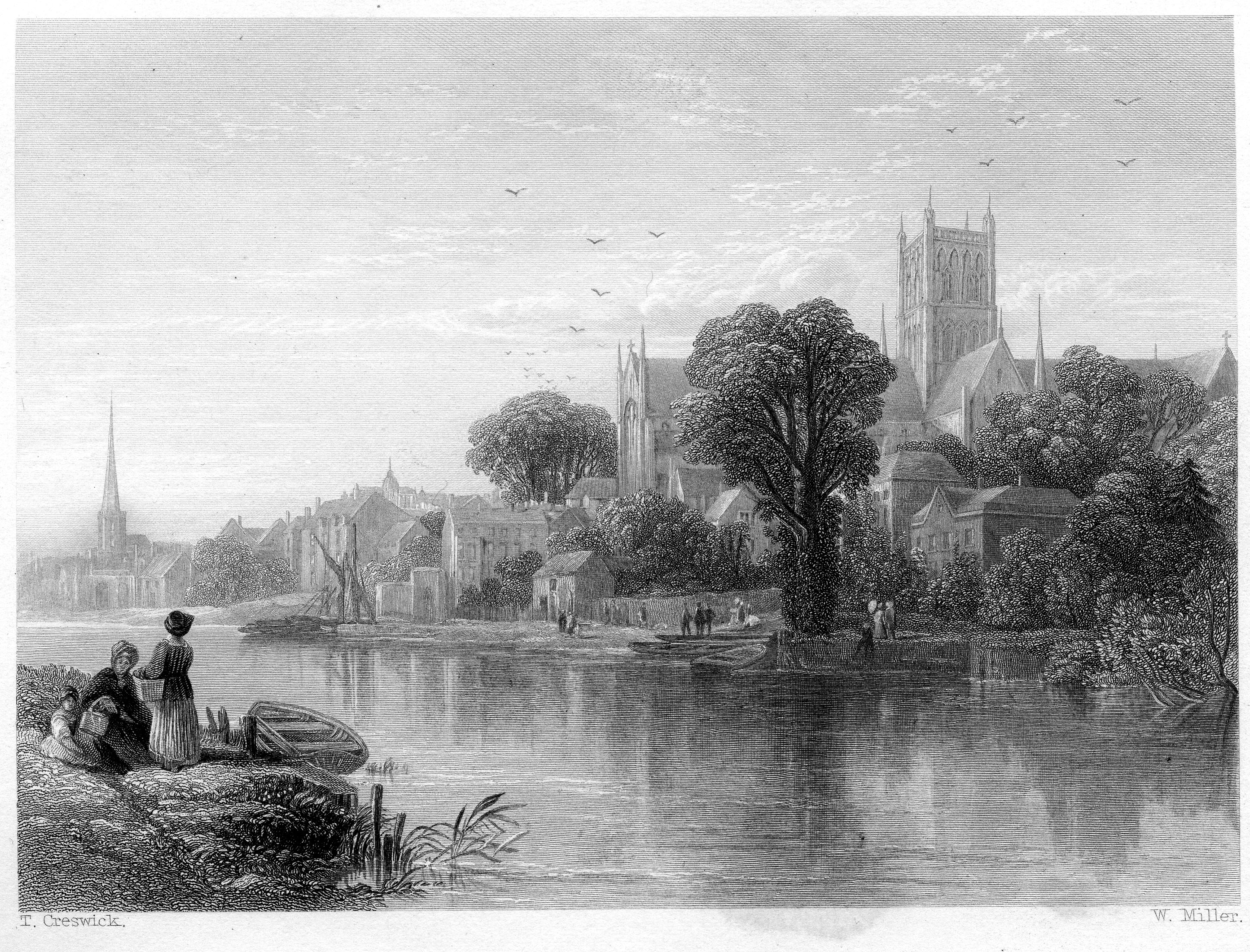 Worcester engraving by William Miller after T Creswick, published in Waverley Novels vol x (Abbotsford Edition). Walter Scott. Edinburgh and London: Robert Cadell, Houlston & Stoneman 1842 - 1847